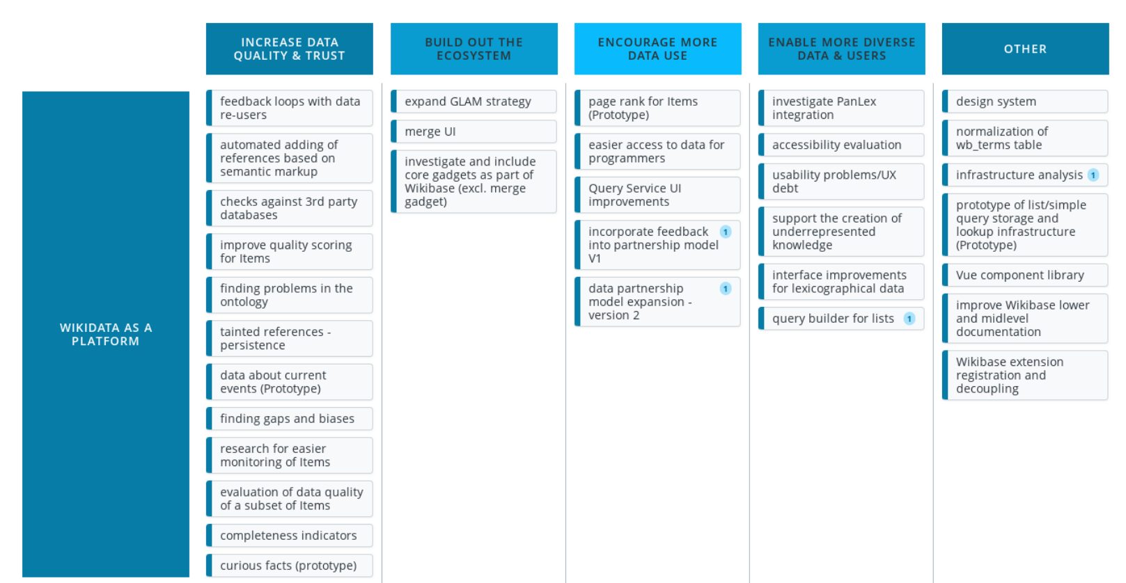 Wikidata roadmap 2020 - Wikidata as a platform